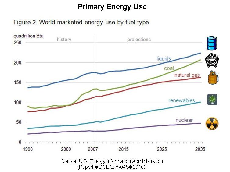 Primary Energy outlook